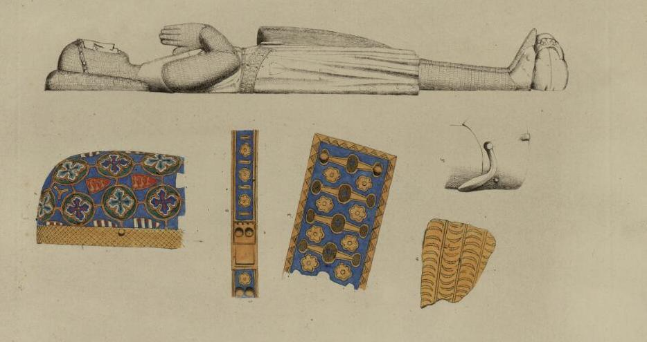 A portrait from the Welsh Portrait Collection at the National Library of Wales. Depicted person: William de Valence, 1st Earl of Pembroke – English Earl